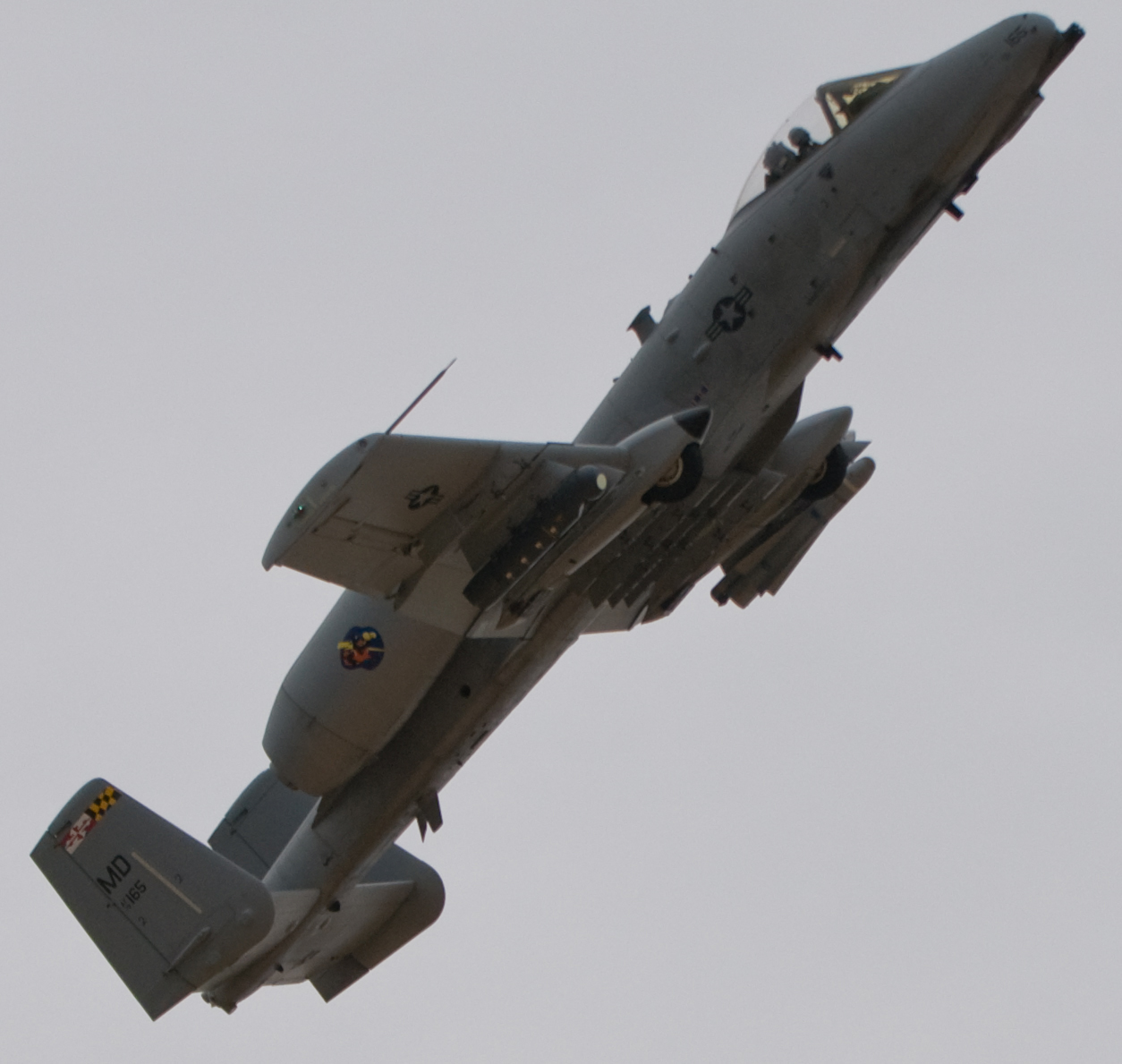 An A-10C Thunderbolt II jet aircraft flies over to simulate a bombing run as part of a military demonstration for distinguished visitors during exercise Saber Strike near Rukla, Lithuania, June 18, 2015. Saber Strike is a long-standing U.S. Army Europe-led cooperative training exercise. This year’s exercise objectives facilitate cooperation amongst the U.S., Estonia, Latvia, Lithuania, and Poland to improve joint operational capability in a range of missions as well as preparing the participating nations and units to support multinational contingency operations. There are more than 6,000 participants from 13 different nations. (U.S. Army photo by Sgt. Jarred Woods, 16th Mobile Public Affairs Detachment)